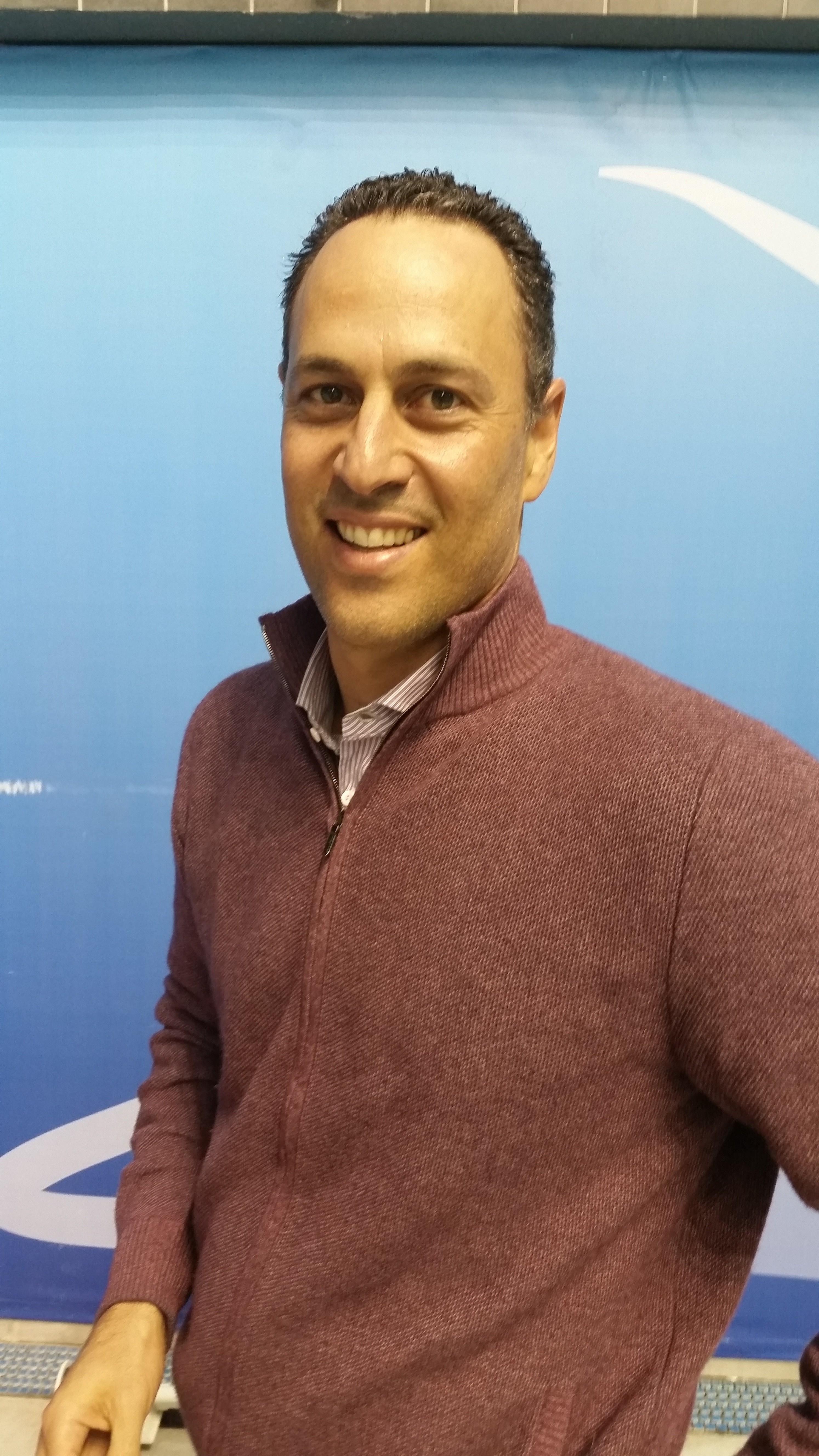 Yoav Bruck, December 2016